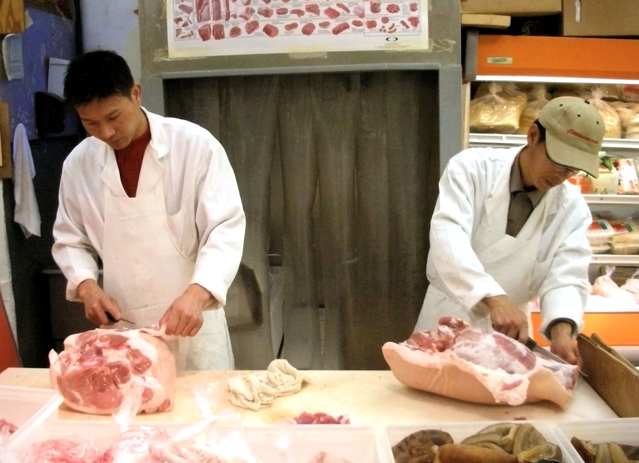 A couple of Butchers at work.